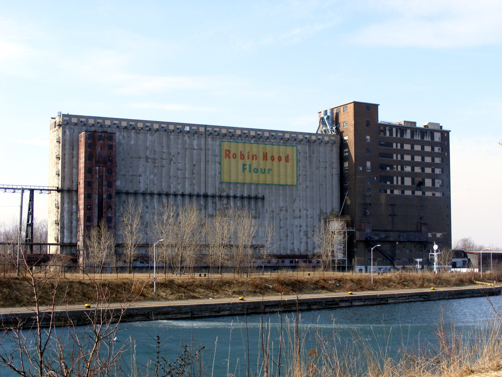 (Former) Robin Hood Mills in Port Colborne, Ontario.